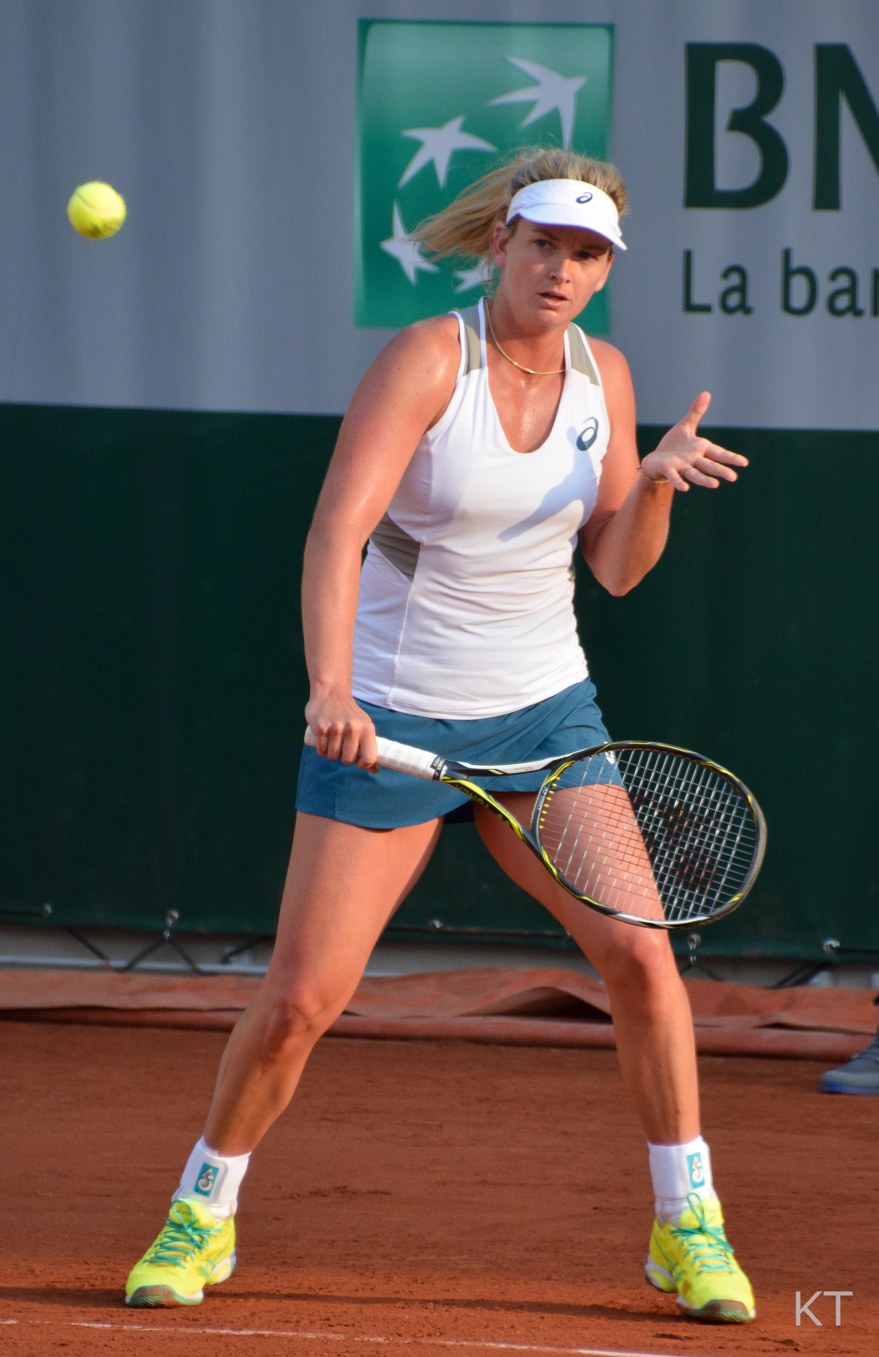 Day 2 of Roland Garros 2016.